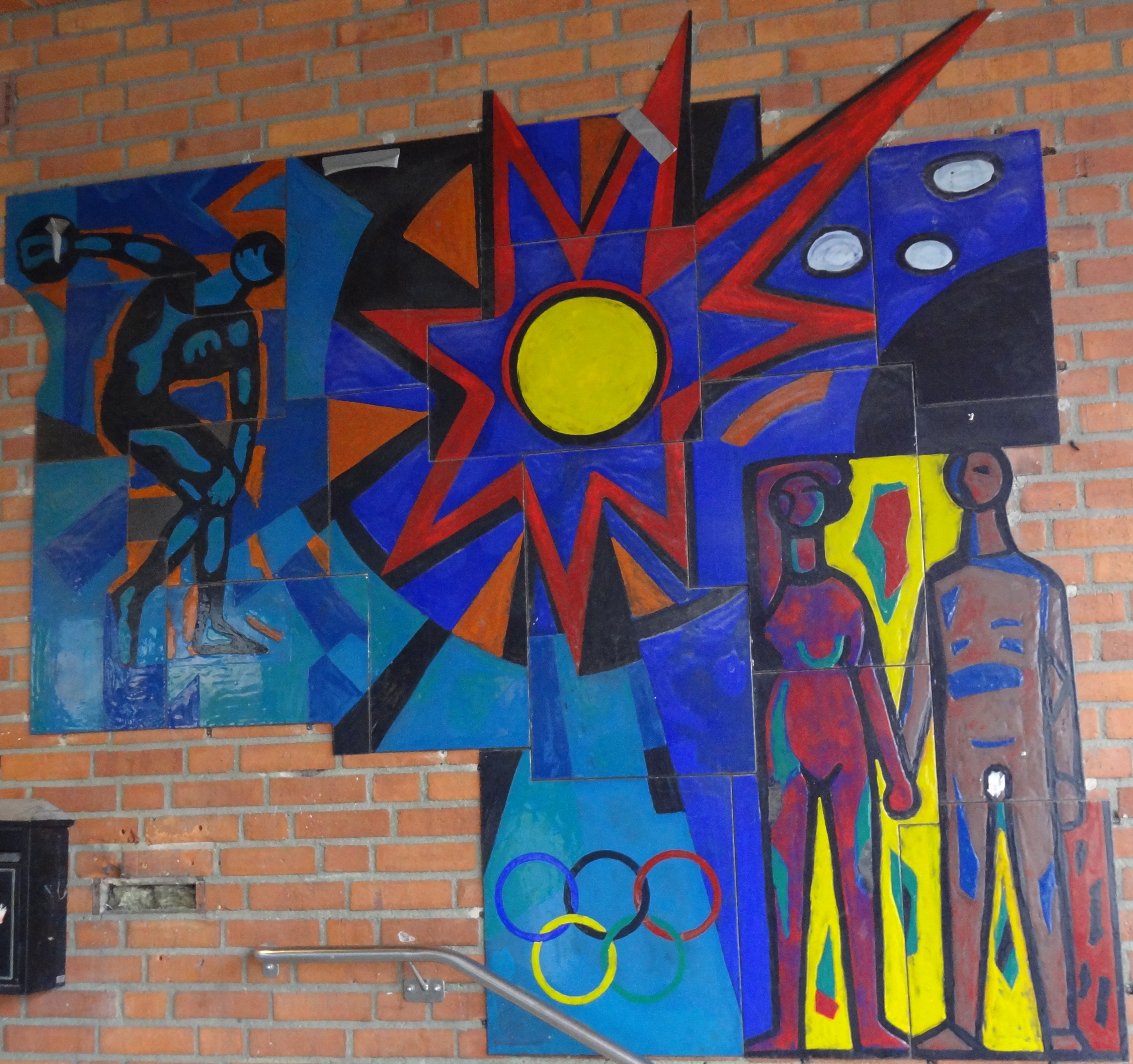 Relief "Olympens sol" (en:"Olympic sun") by Uno Lindberg. Placed at Sporthallen (sports arena), Hamngatan 15 in Eskilstuna, Sweden. Photo taken November 2012.